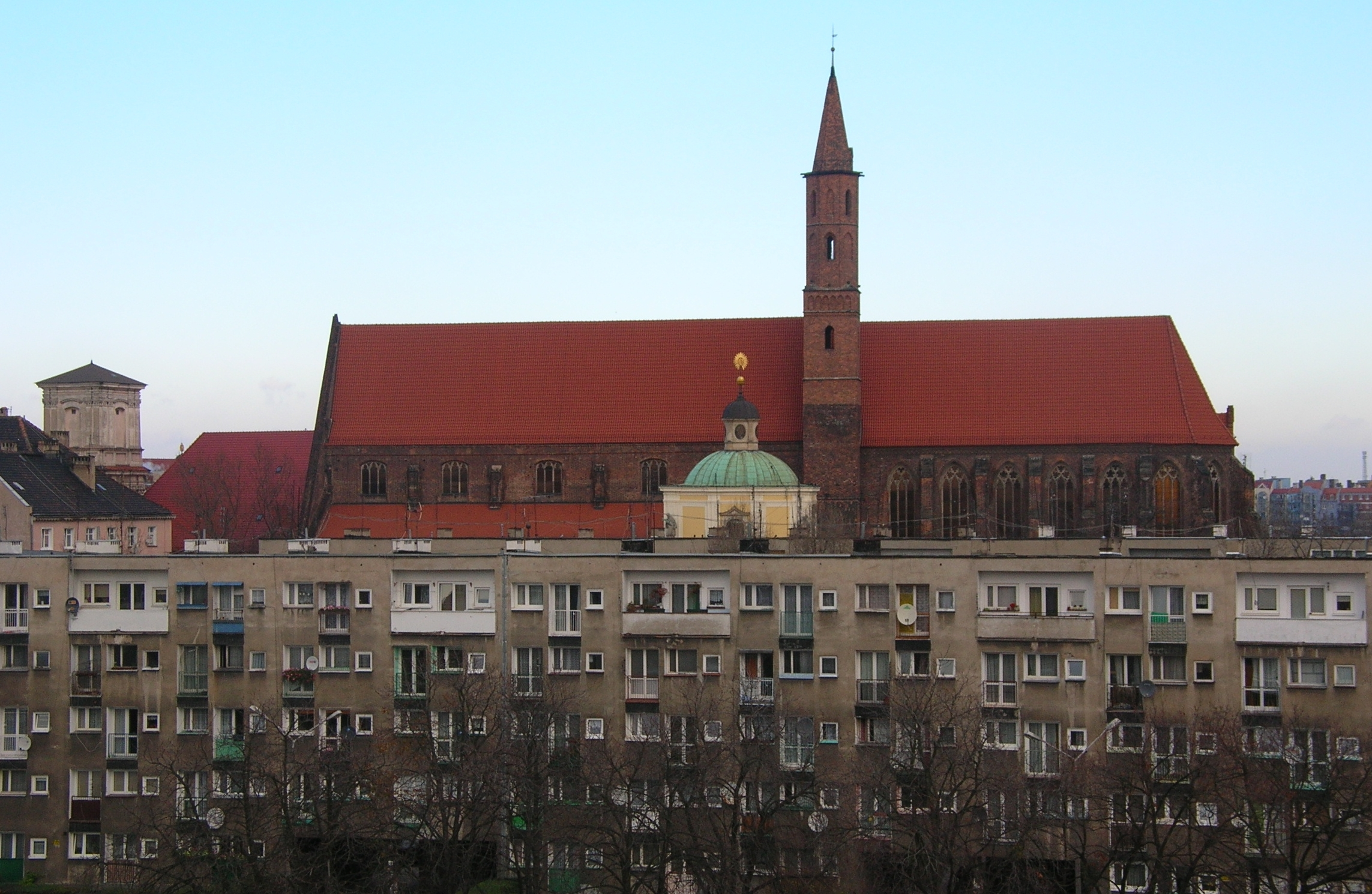 St. Vincent church in Wrocław